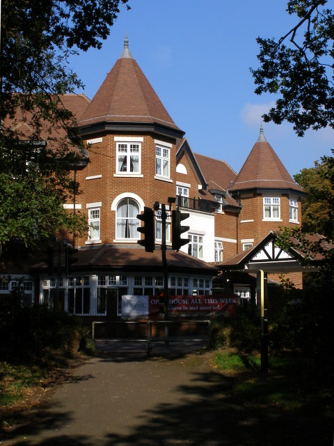 New flats on Burgess Road A new development of flats (for the retired?) to the north of Southampton Common on the corner of Burgess Road and Butterfield Road. There used to be a pub on this site.